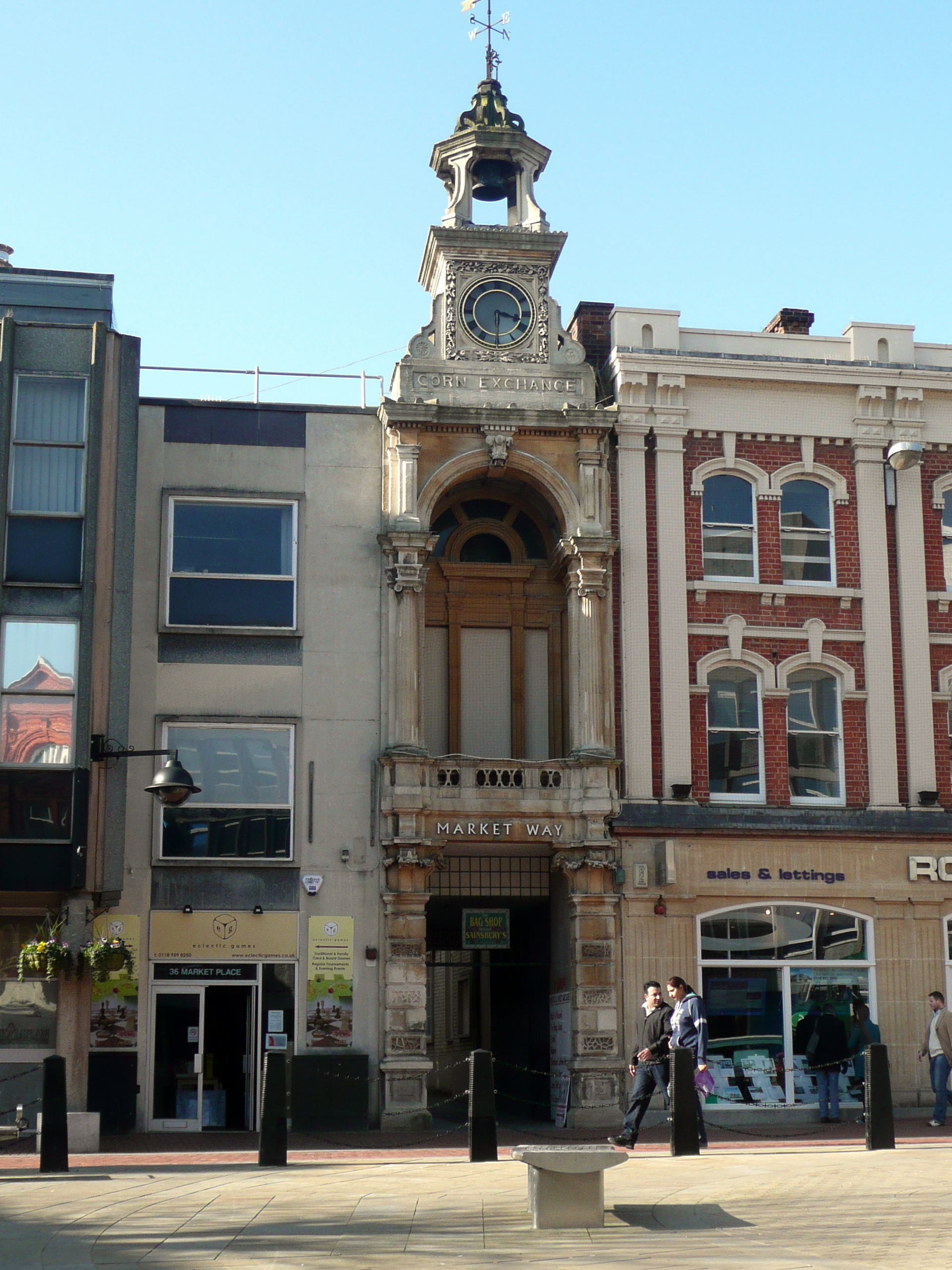 Entrance to former Corn Exchange Arcade, Market Place, Reading. Designed by J B Clacy and F Hawkes and built 1864. Arcade behind is long gone.